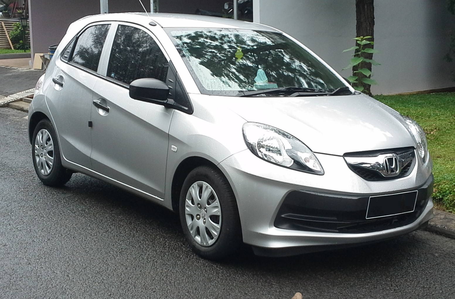 A Honda Brio S 1.3 photographed in Cileungsi, West Java, Indonesia on February 2, 2014.